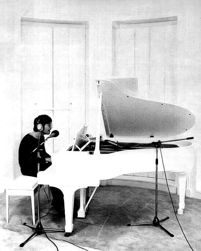 John Lennon, as pictured in an advertisement for Imagine from Billboard, 18 September 1971